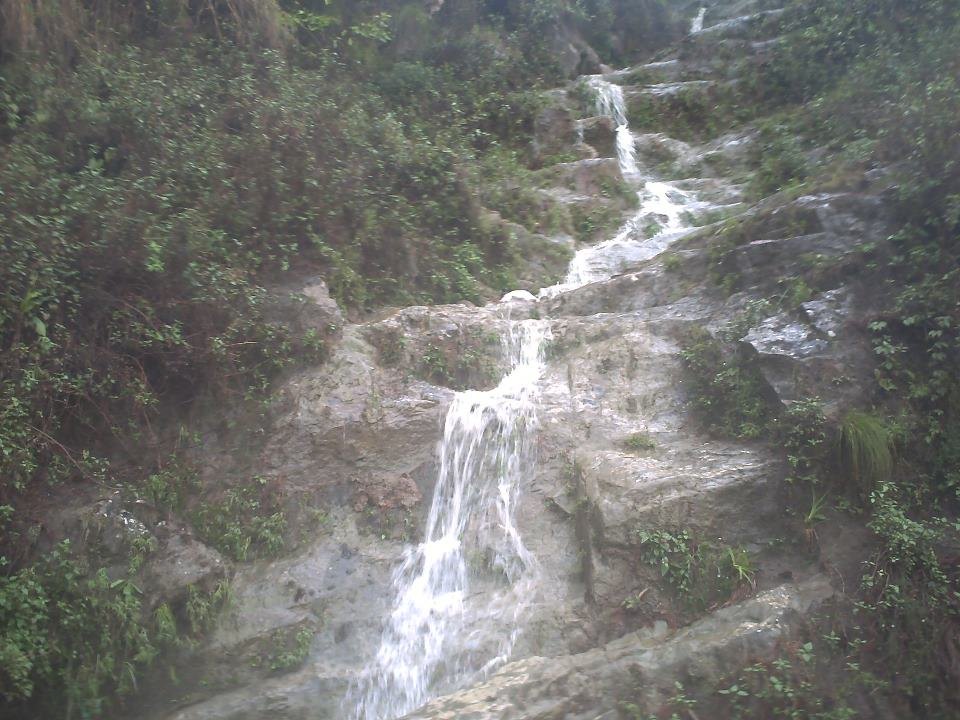 A small fall At Nepal